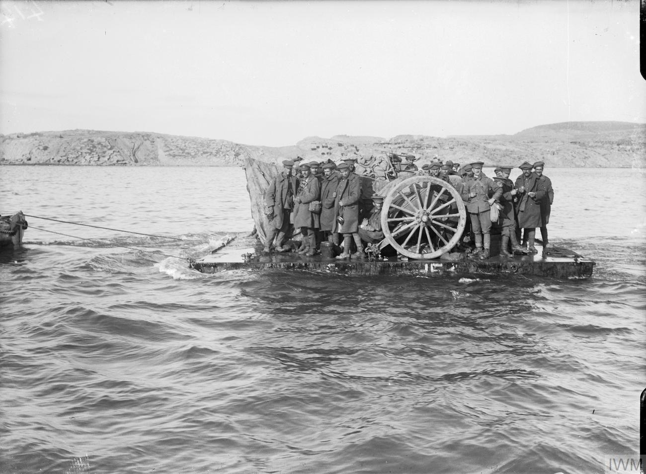 Allied evacuation of Gallipoli : Evacuating guns and personnel from Suvla Point on rafts in daylight.